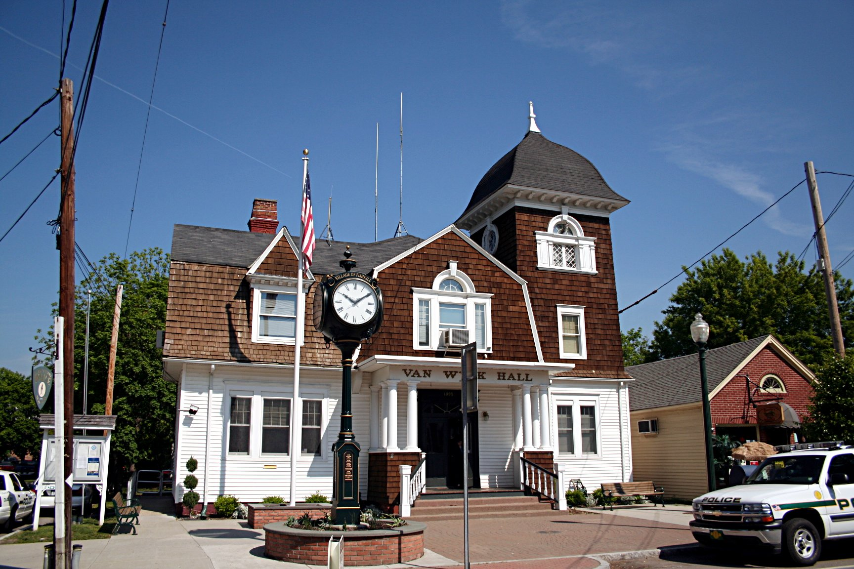 Photograph of Van Wyck Hall in the Village of Fishkill, New York, United States of America. Built as a theater by Henry DuBois Van Wyck in 1898, architect unknown. Later served as the town hall